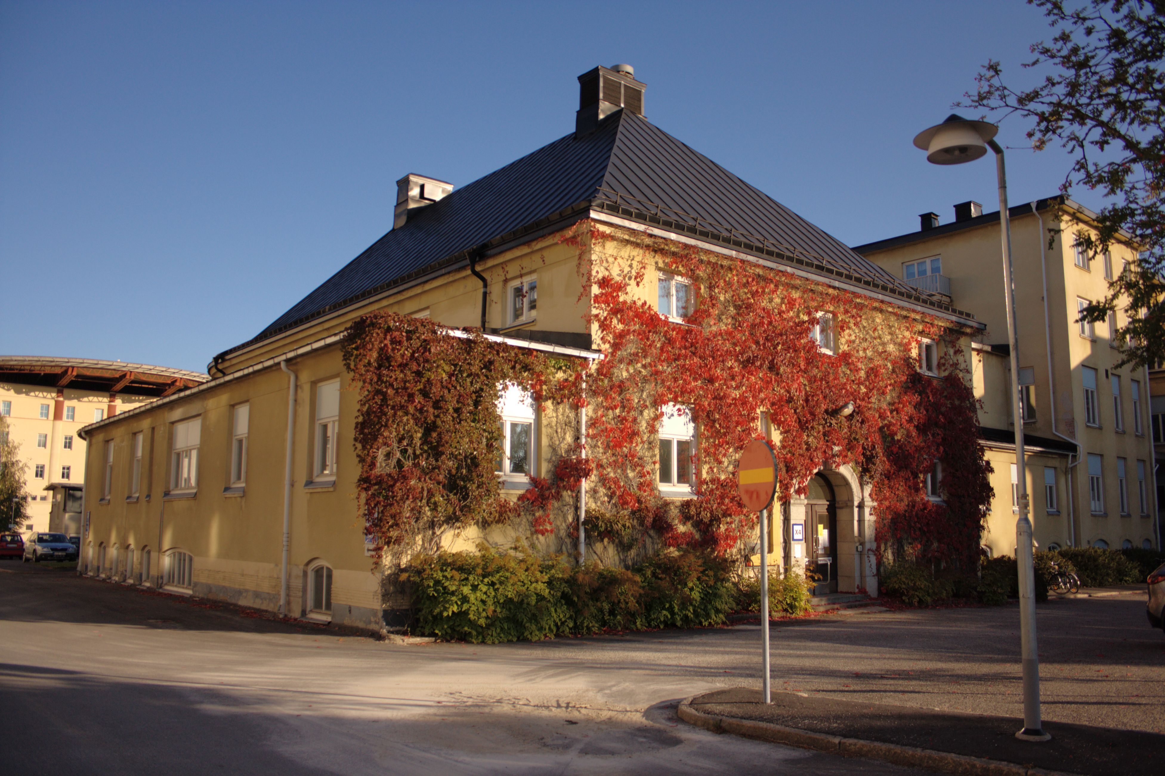 Building 9A in the hospital area